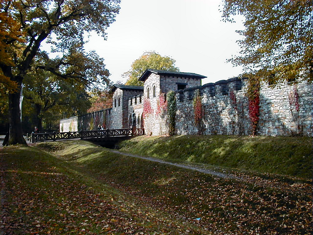 Cohort Fort Saalburg